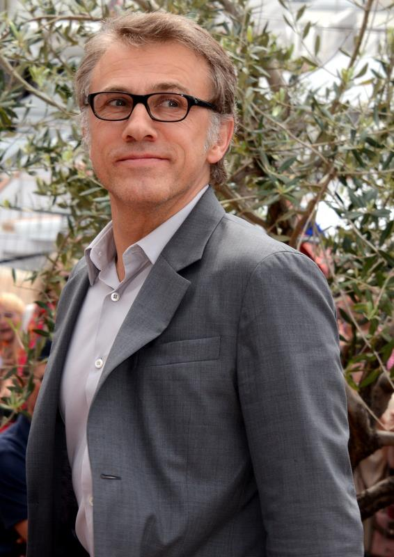 Christophe Waltz at the Cannes Film Festival